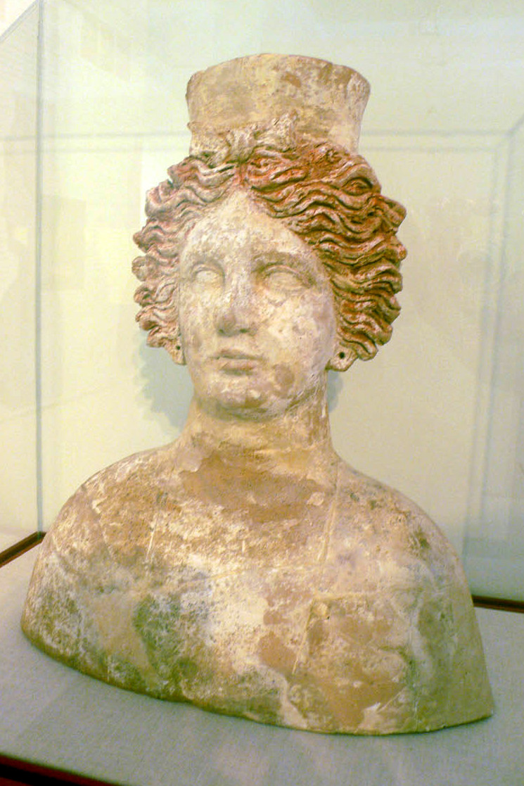 Bust of the goddess Tanit found in the necropolis of Puig des Molins. 4th century B.C. Museum of Puig des Molins in Ibiza (Spain). See also: Tossal necropolis pebetero.jpeg